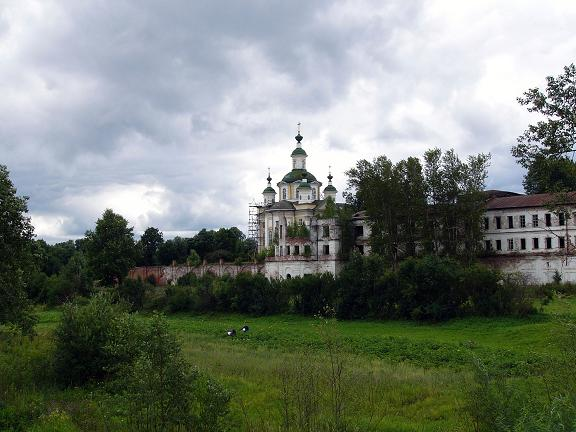 Spaso-Sumorin Monastery